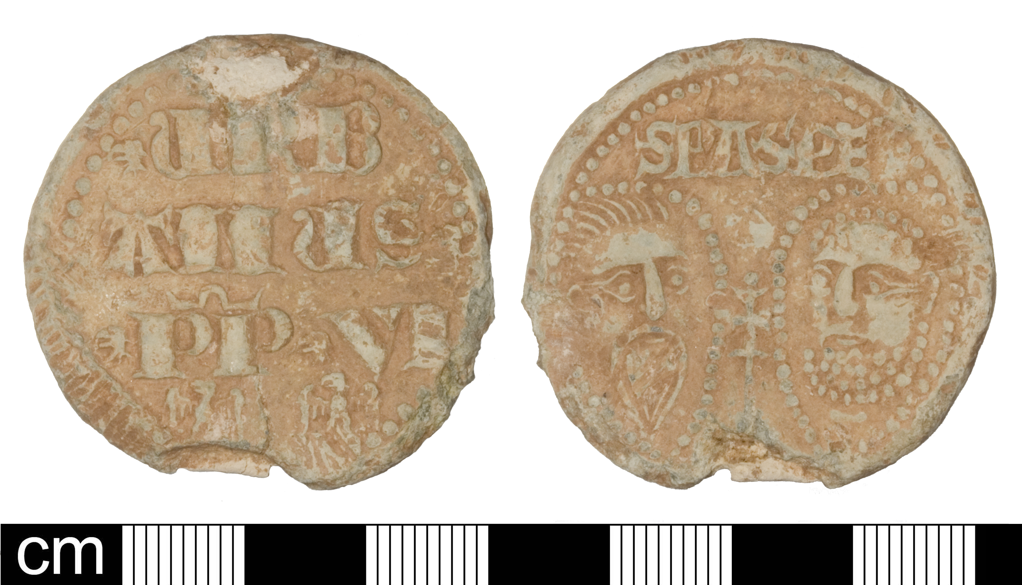 A medieval lead papal bulla of Pope Urban VI (AD 1378-1389). The object is sub-circular, with small truncations at the top and bottom at the points at which the cord would have travelled through an internal recess. One face bears the inscription '. URB/ANUS ./. PP . VI (omega above the 'P's; rounded 'U's) ' in three lines, within a pelleted border. There are bird's heads 'erased' stops around the Pope's name around the 'PP'. A pair of further eagles are depicted 'displayed' below the inscription. The 'PP' stands for 'Pastor Pastorum', translated as 'shepherd of the shepherds'. The other face bears the conventional stamped busts of Saints Peter and Paul both within drop-shaped pelleted borders, possibly haloes. On the left, St Paul's beard is portrayed as being long, straight and pointed, whilst his hair is straight and swept back. On the right, Peter looks left with his more rounded hair and beard both formed of pellets. Between the two is a crozier. Above is the inscription: 'SPA SPE' (abbreviations for St Paul and St Peter). The bulla has been twisted slightly and appears to have received two recent strikes, but otherwise survives well. A parallel can be found illustrated in Egan (2001, 88, 90; ref. 7). Egan (ibid., 88) quotes other examples and notes that the birds refer to the arms of the family of Bartolomeo Prignano, to which this Pope belonged.